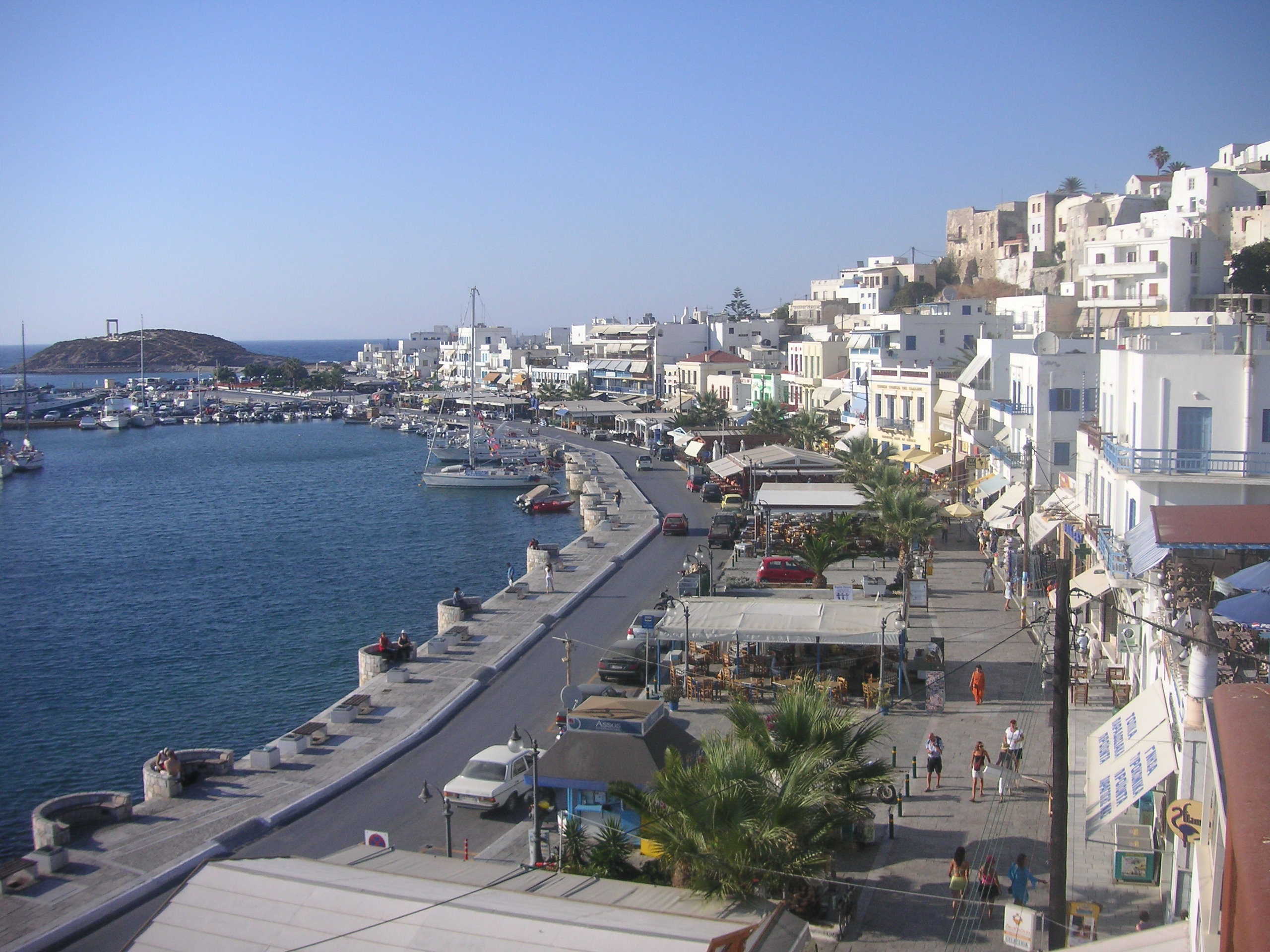 Naxos by day during the tourist season. Photo by KF, July 2006.